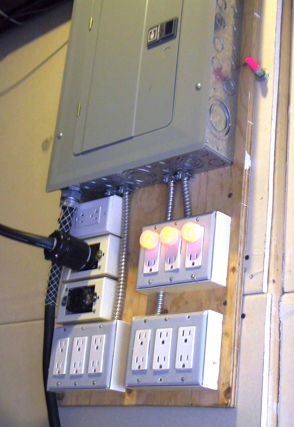 3phase 12position portable breakerpanel I took this picture from near level 4, looking up into the mech room. I license this picture for use in Wikipedia. The sets of 3 sockets are for 3plug 3phase research systems. The 3 lights on one of the outlets show phase sequence.